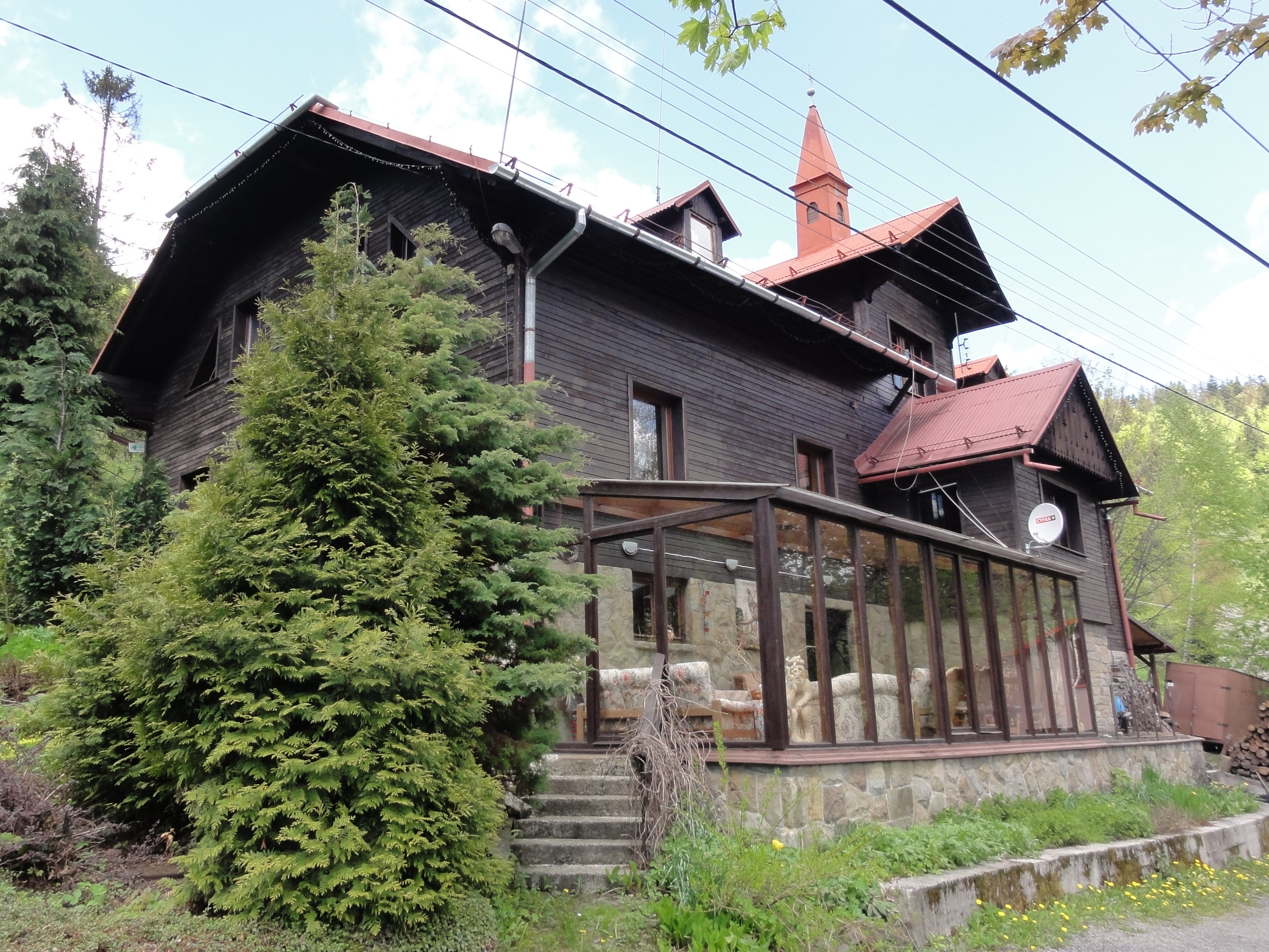 Guest house beside lutheran church in Szczyrk-Salmopol, former chapel and school